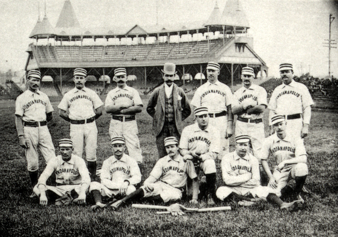 1888 Indianapolis Hoosiers team photo